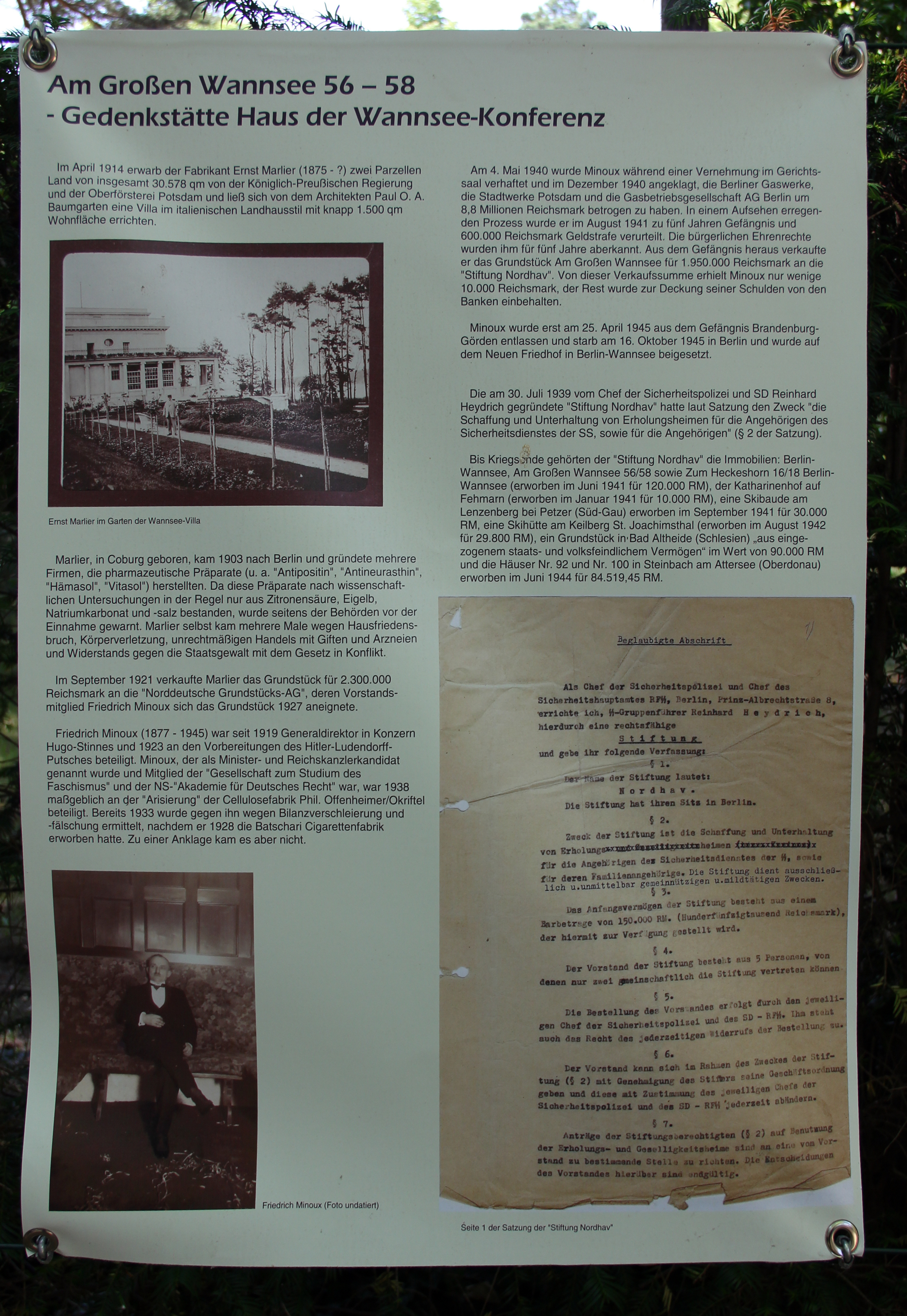 Memorial plaque, Haus der Wannseekonferenz, Am Großen Wannsee 58, Berlin-Wannsee, Germany